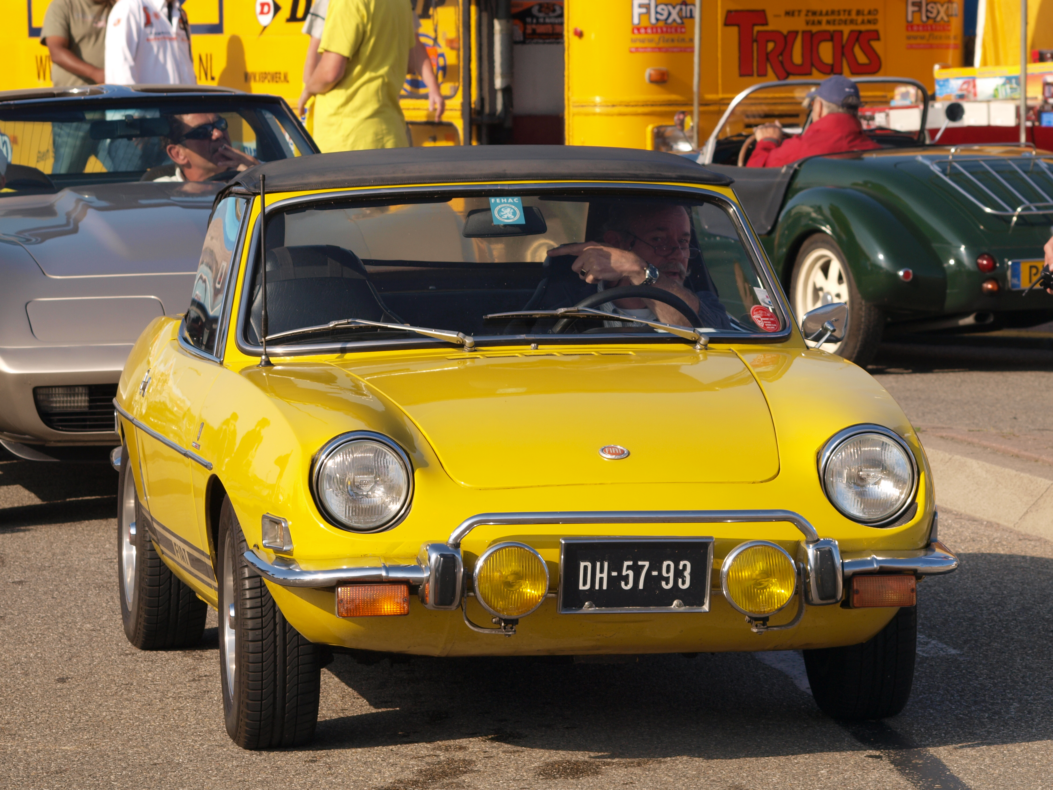 Photographed at the Nationaal Oldtimer Festival Zandvoort 2009, The Netherlands. OLYMPUS DIGITAL CAMERA